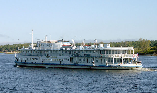 Petr Alabin Project 785 Volga Zvenigov 2005